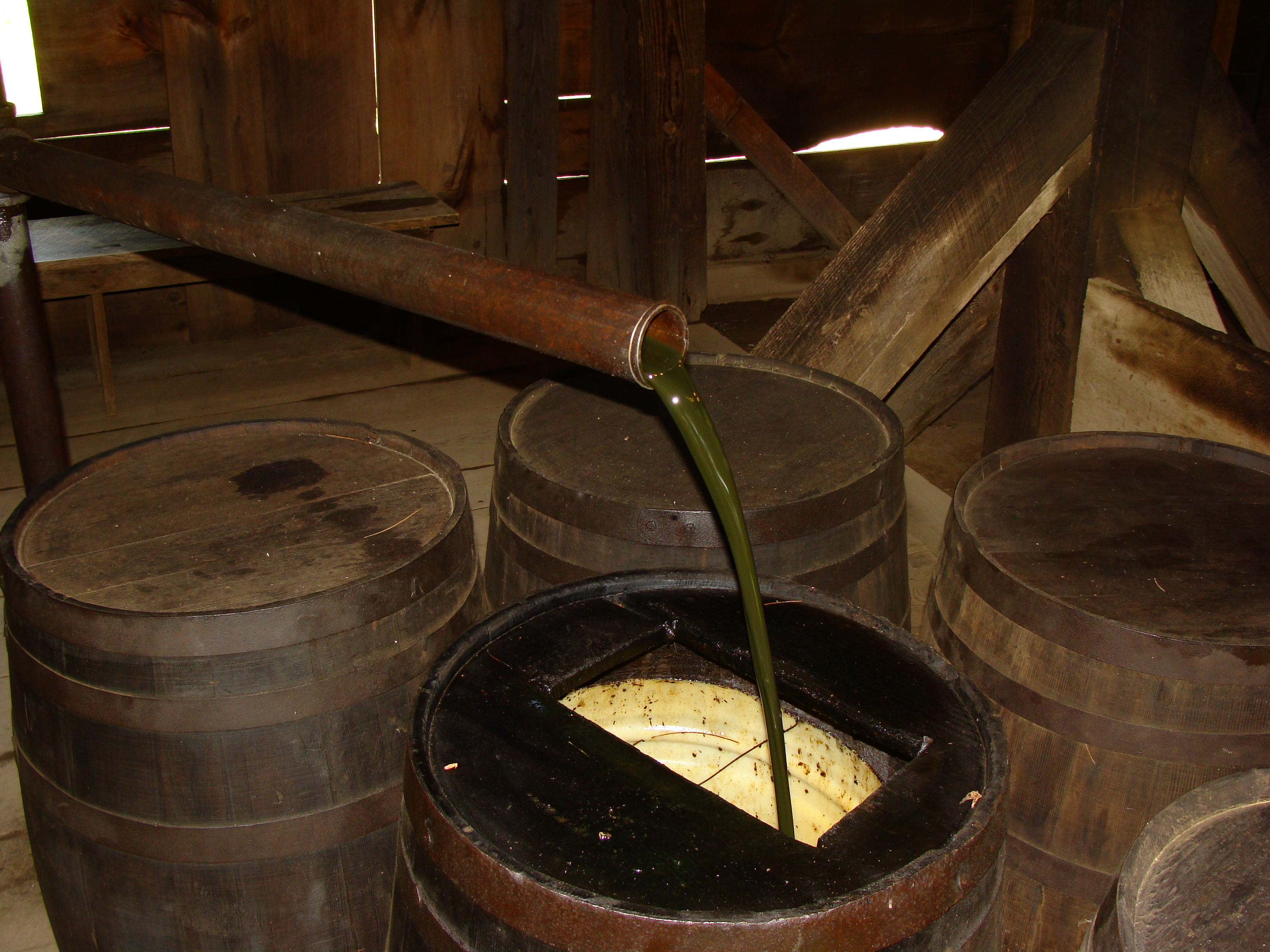 Recirculating petroleum is pumped from the well by a replica steam engine. The petroleum is originally from McClintock Well #1, the oldest continously producing oil well.